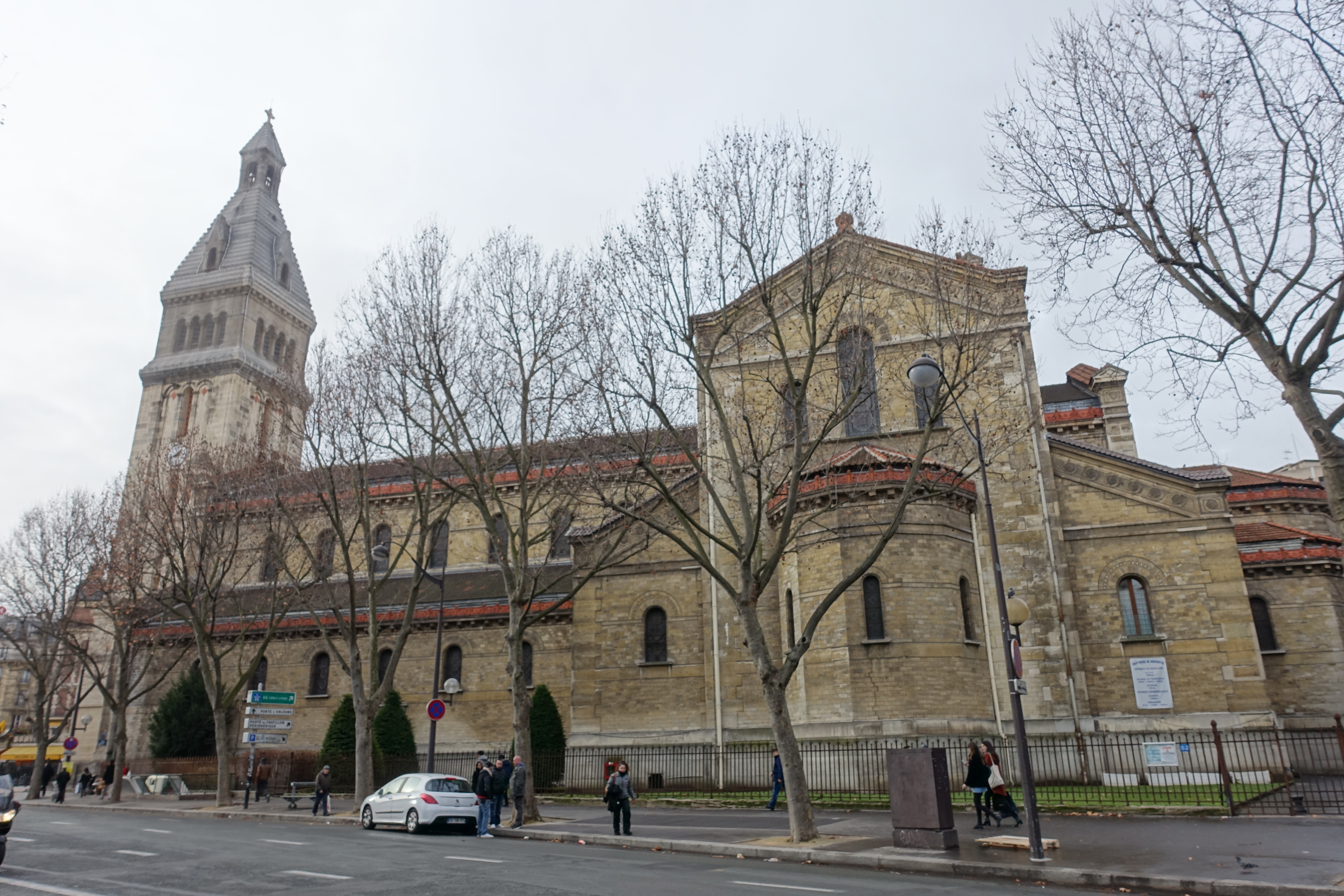 Saint-Pierre-de-Montrouge, a 19th-century church in Paris, in the Petit-Montrouge quarter of the XIVe arrondissement. Address: 82 Avenue du Général Leclerc, 75014 Paris, France.